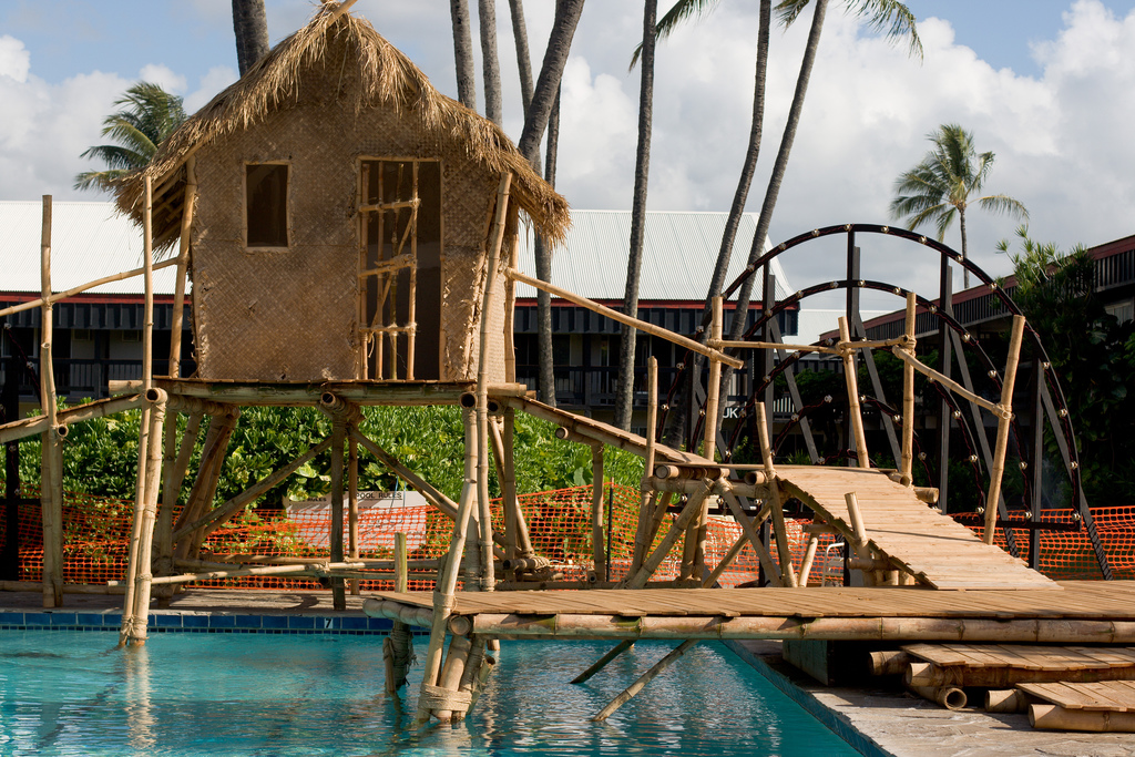 A hut used for filming in the 2008 film Tropic Thunder on the island of Kauai, Hawaii.